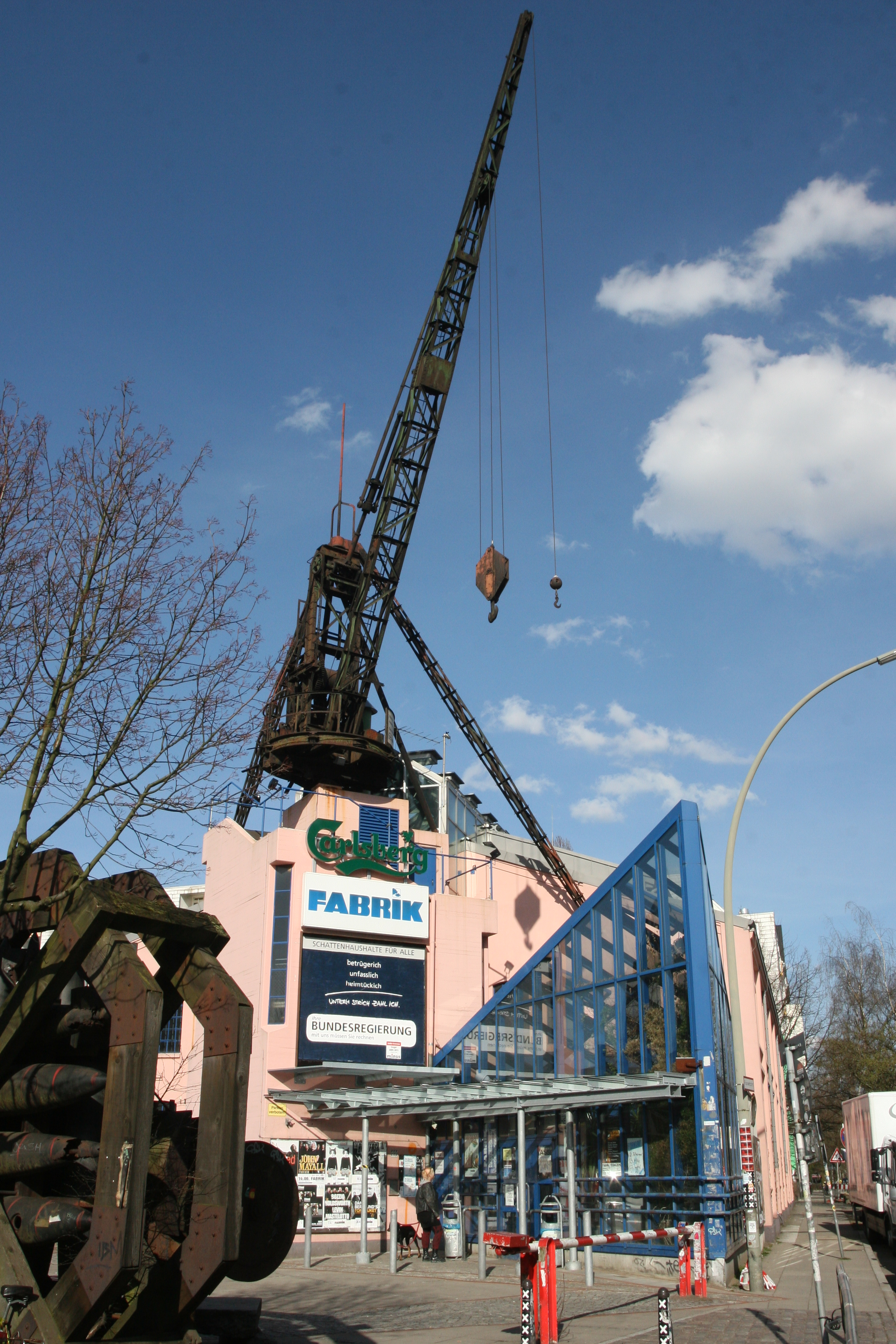 Event Center "Fabrik" in Hamburg-Ottensen, Germany